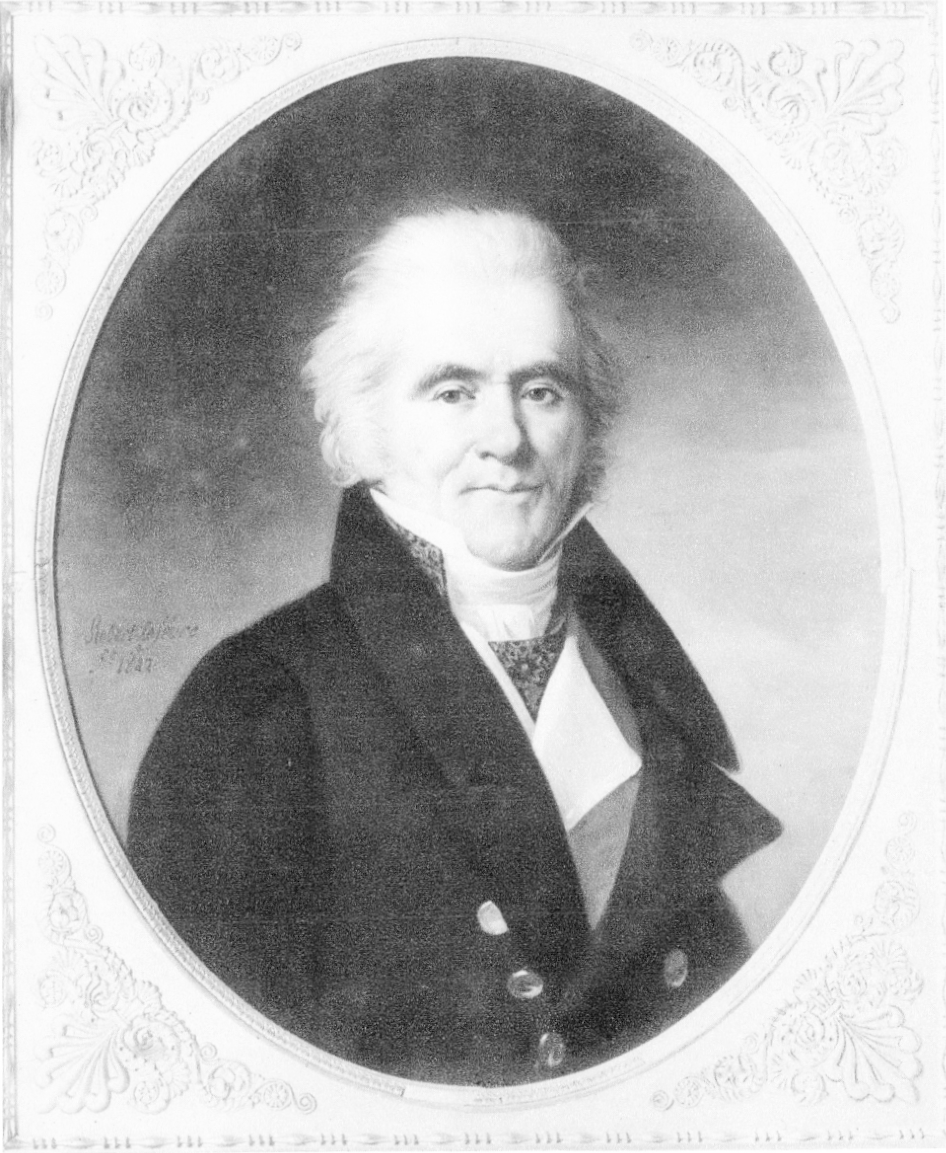 Portrait du général Perron, reproduction of a painting by Robert Lefèvre (1822).